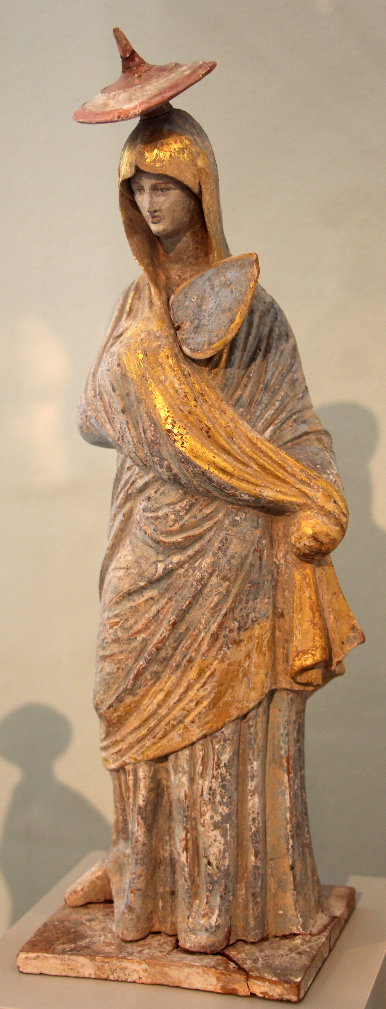 Ancient Greek terracotta in the Antikensammlung Berlin